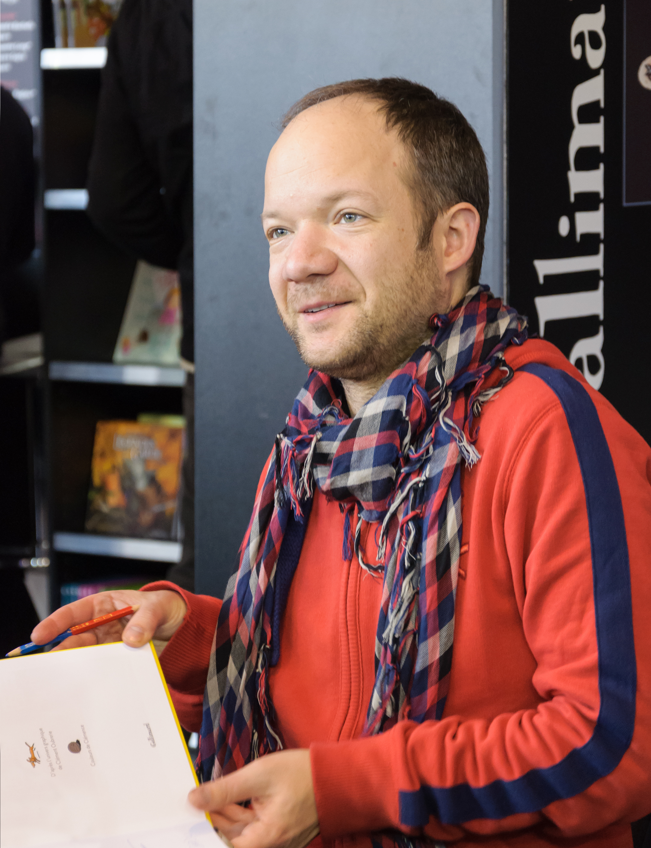 Mathieu Sapin in autograph session at the 40th Angoulême International Comics Festival, 2013.